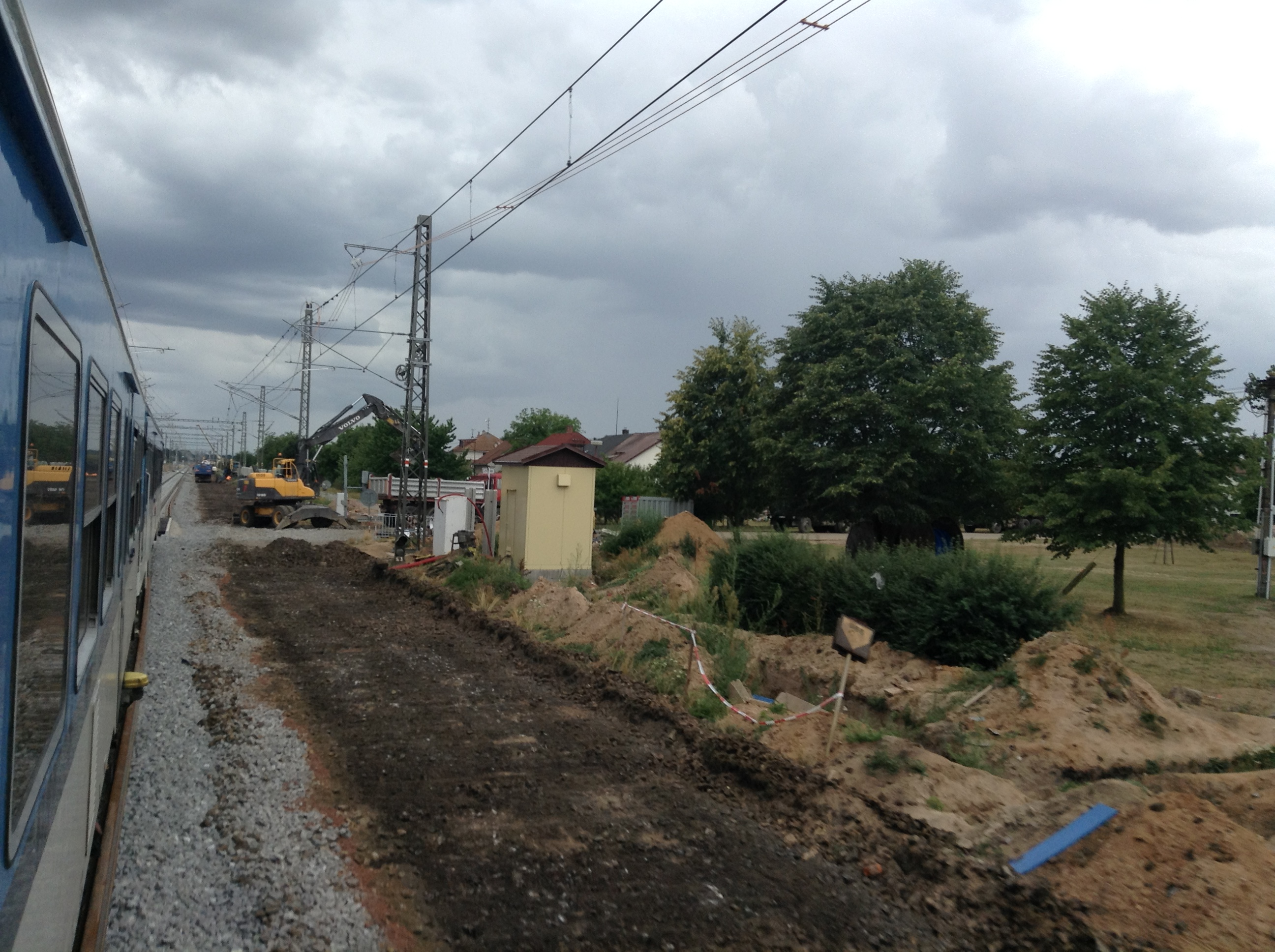 Reconstruction works on railway line 031 between Hradec Králové and Pardubice, Czech Republic in July 2015. My apologies for the lower quality, taken from a moving train.